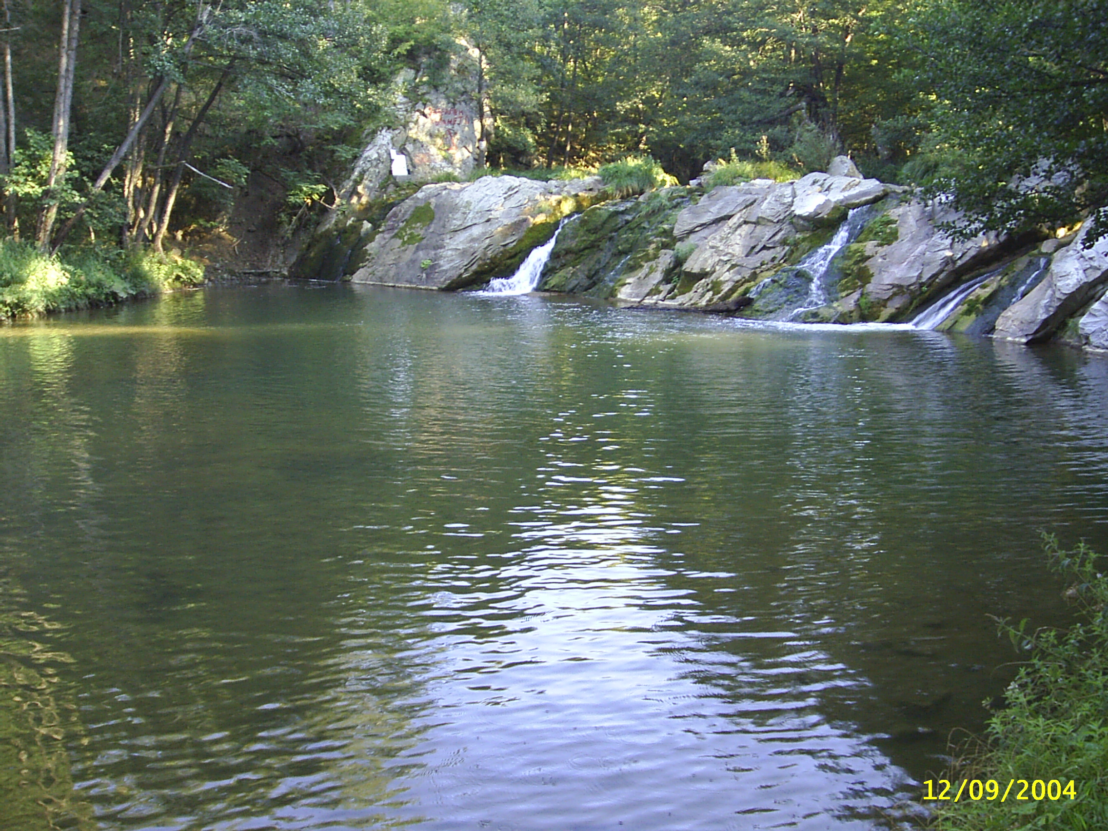 River near Gradets, Bulgaria.